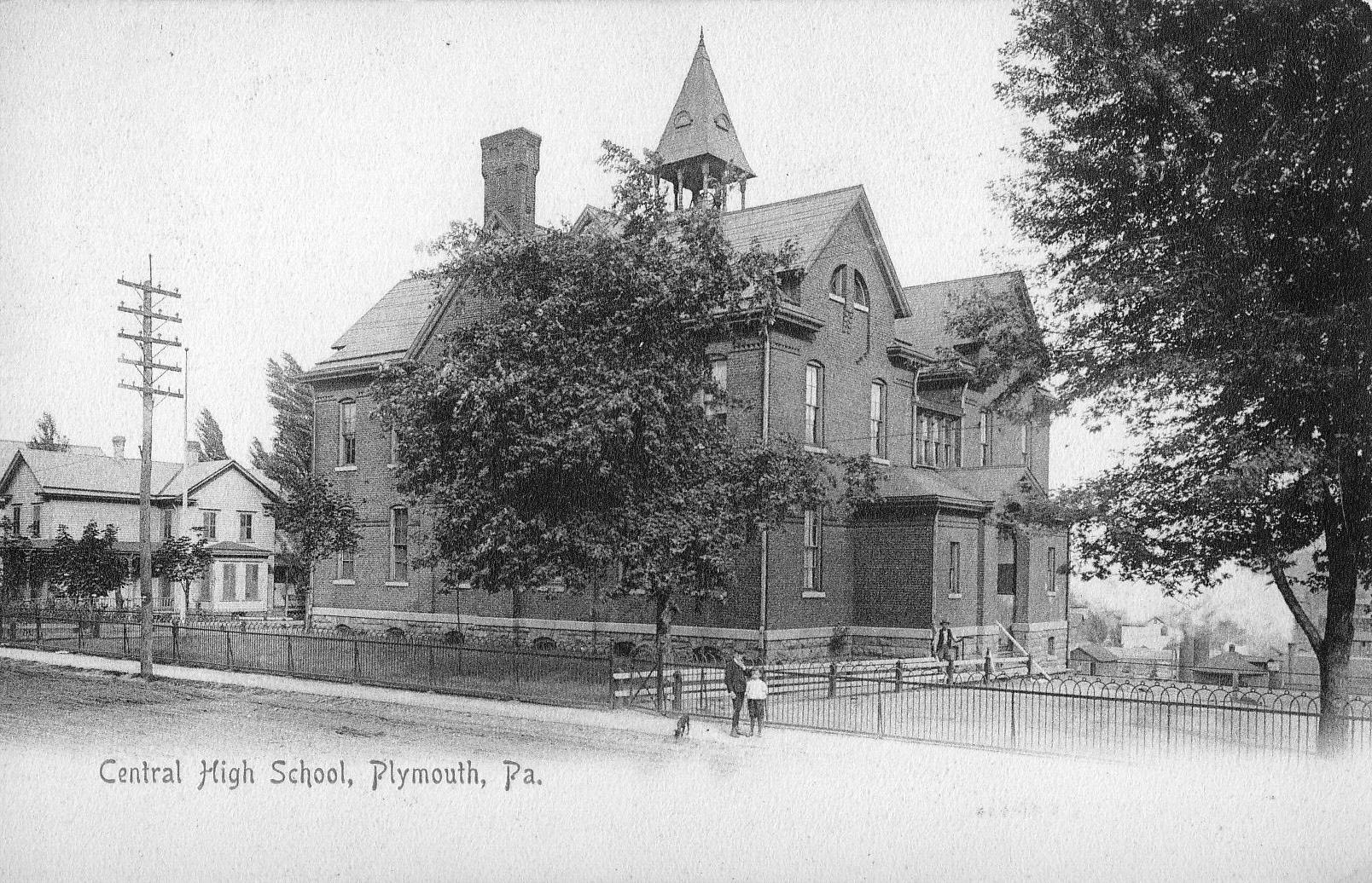 First Central High School, Plymouth, Luzerne County, PA